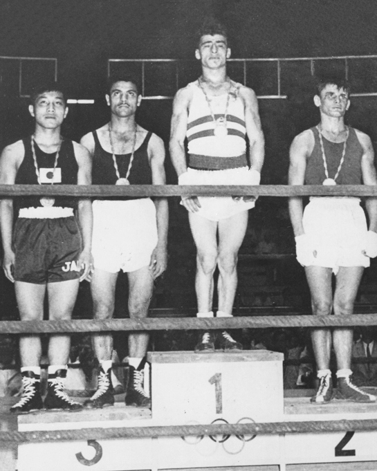 Left-rigtht: Kiyoshi Tanabe, Abdel Moneim El-Guindi, Gyula Török, Sergei Sivko at the Rome Olympics